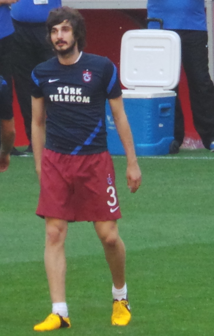 Abdullah @ TT Arena